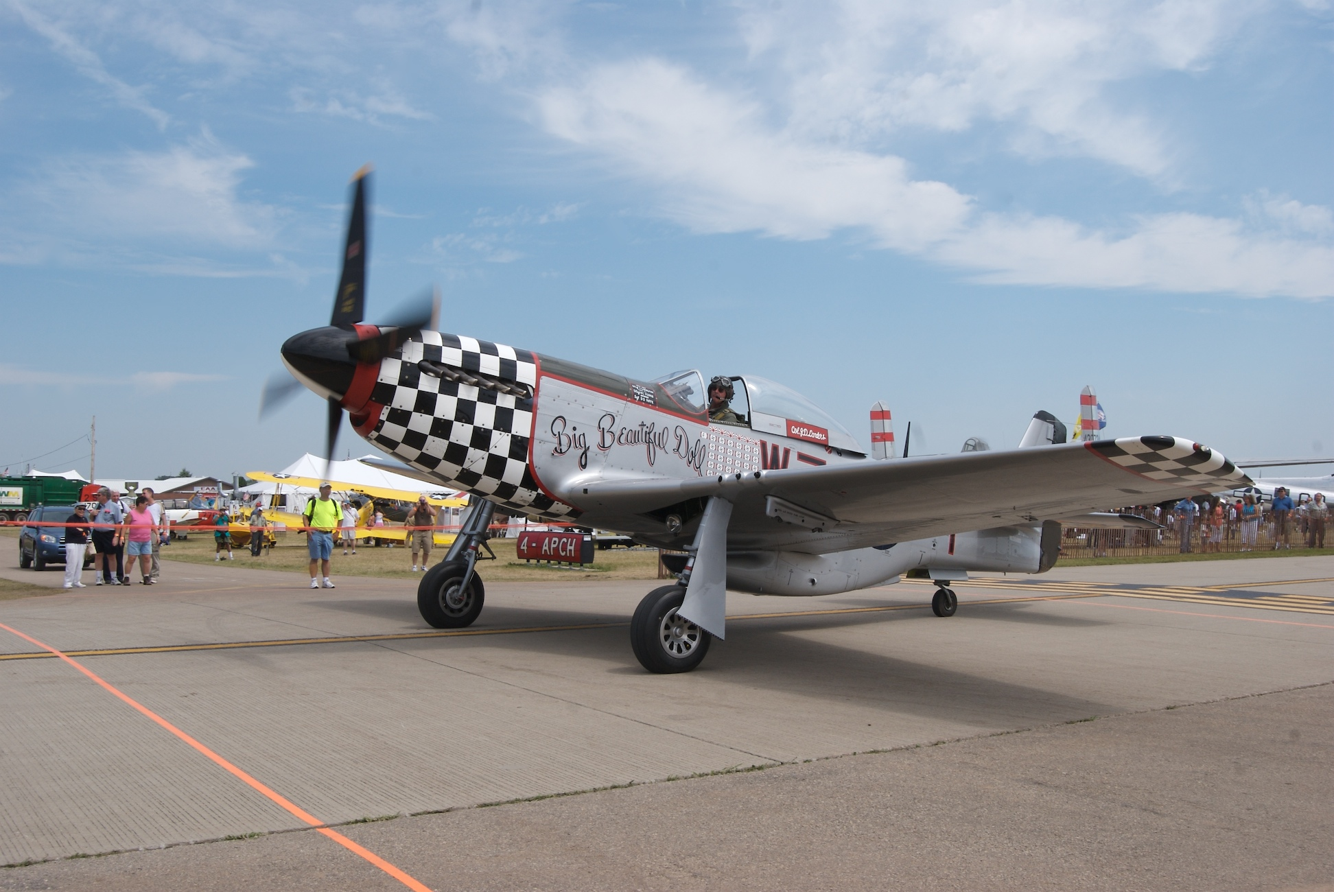 P-51 Mustang "Big Beautiful Doll" down the taxiway at the 2007 EAA Airventure. You really get a feel for how hard it must be to taxi an aircraft like this when you see where the pilot sits versus the nose of the aircraft. There is no way the pilot can see directly in front of him. Pilots have to rely on the ground handlers to guide them or taxi in an "S" pattern to be sure they are clear in front of them.